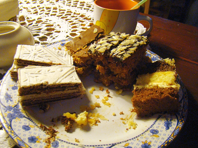 Christmas sweets in Poland